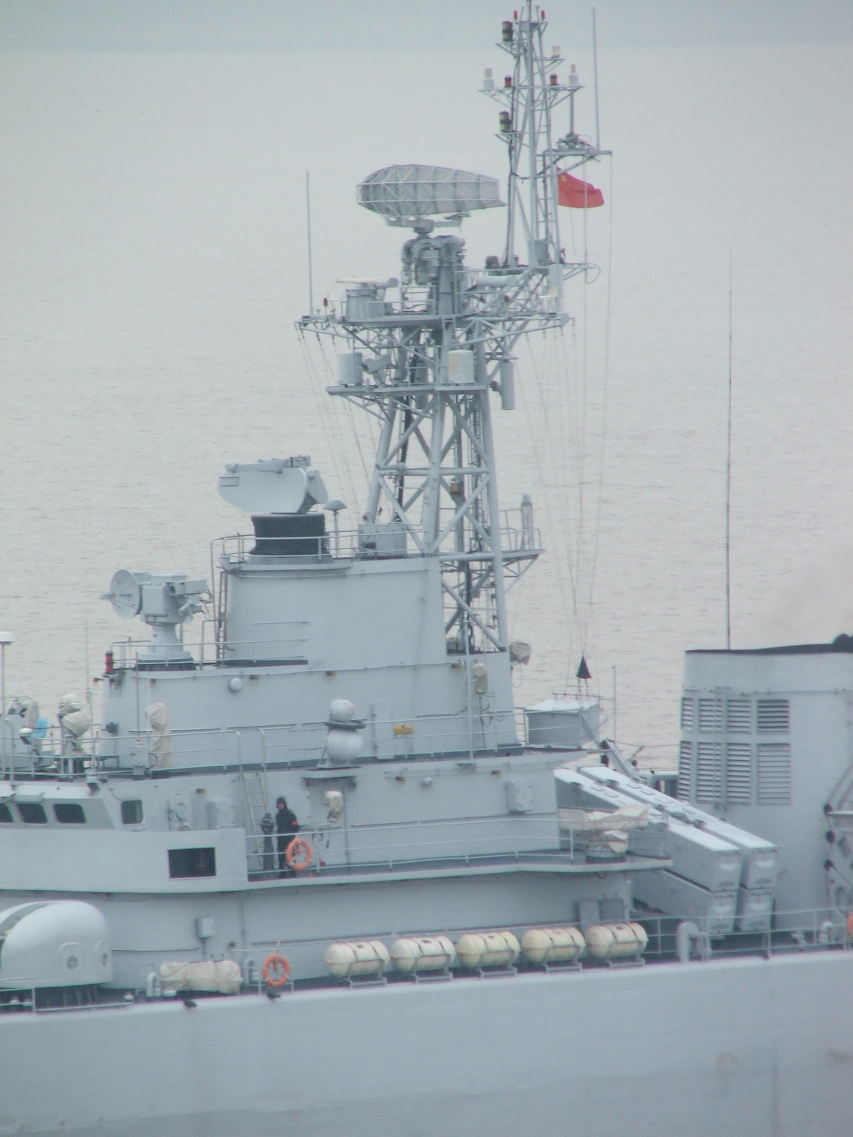 (FFGHM 521) Jiaxing - Jiangwei class frigate